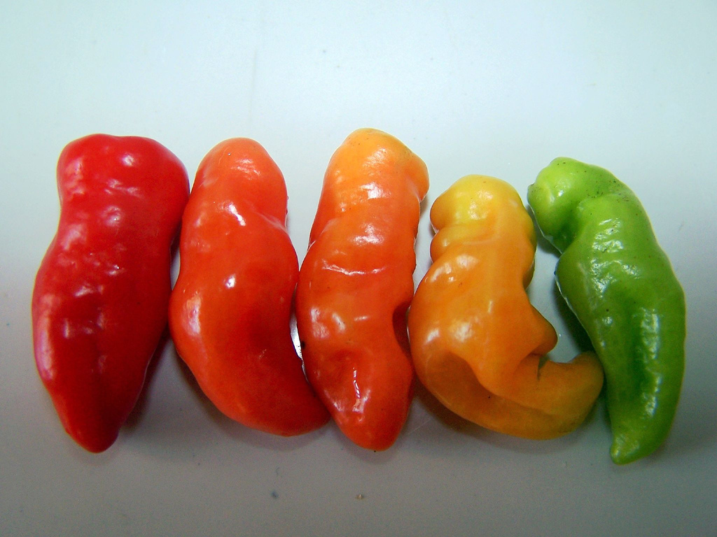 Unidentified Capsicum